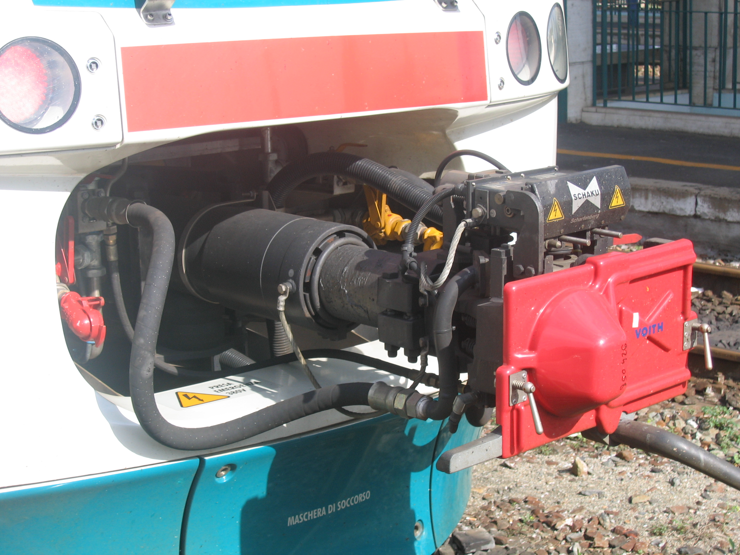 ALn501-502 MD21 "Minuetto" coupling system. Built by Alstom, parto of Coradia/LiNT family. Design by Giugiaro. Santhià (TO), Italy